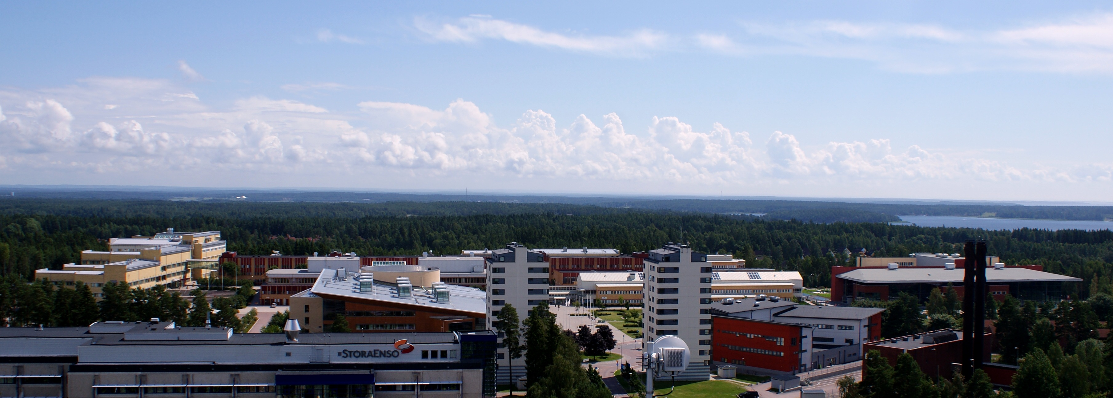 Karlstad University seen from the water tower in Kronoparken.